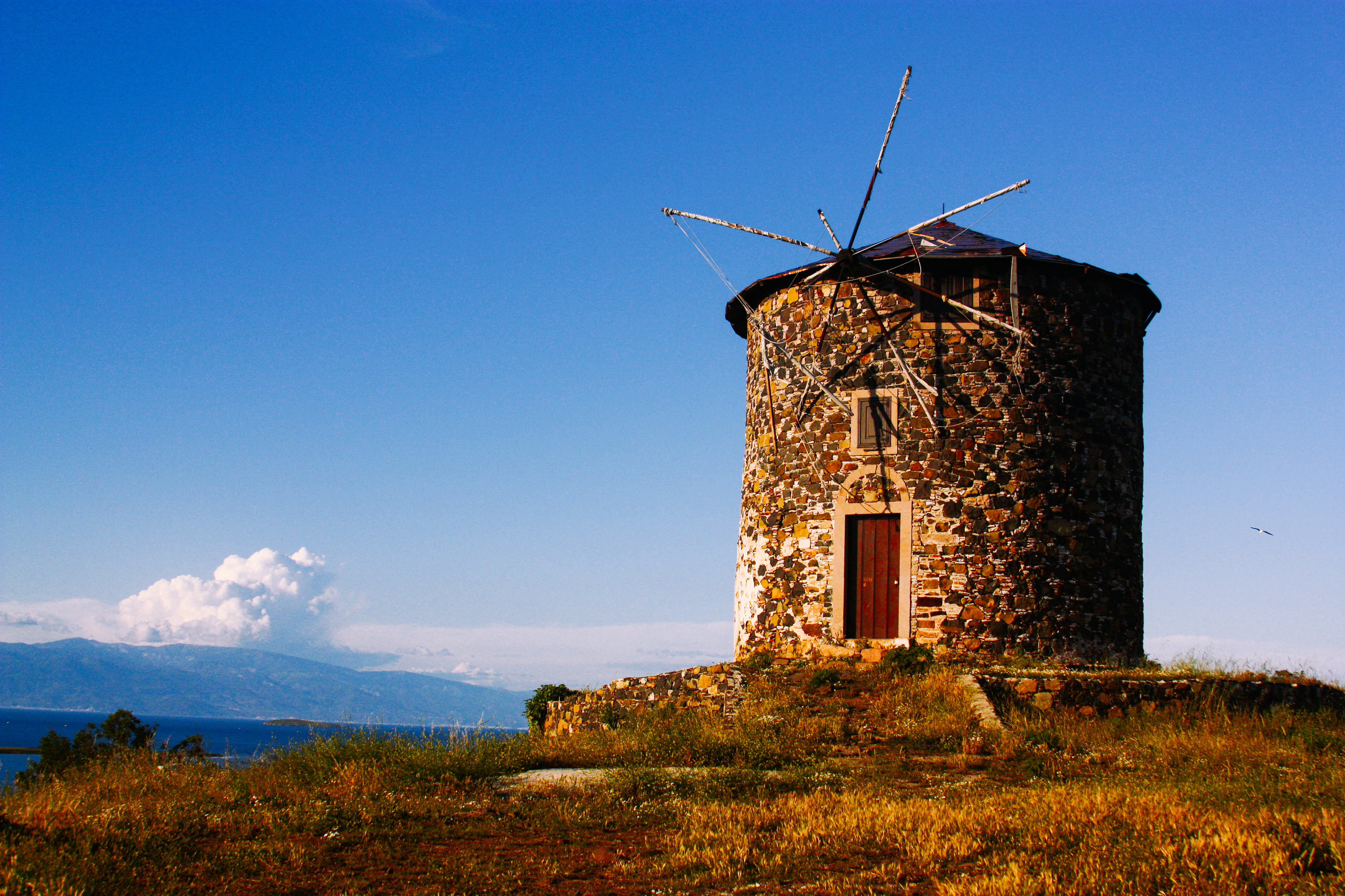 Alibey Adasi, Ayvalık, Turkey